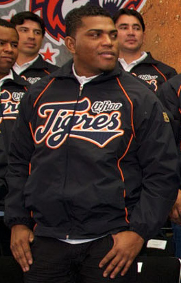 Reception of the team 'Tigres de Quintana Roo' champions of the Mexican Baseball League Season 2013. Official Residence of Los Pinos, Mexico City. December 6, 2013